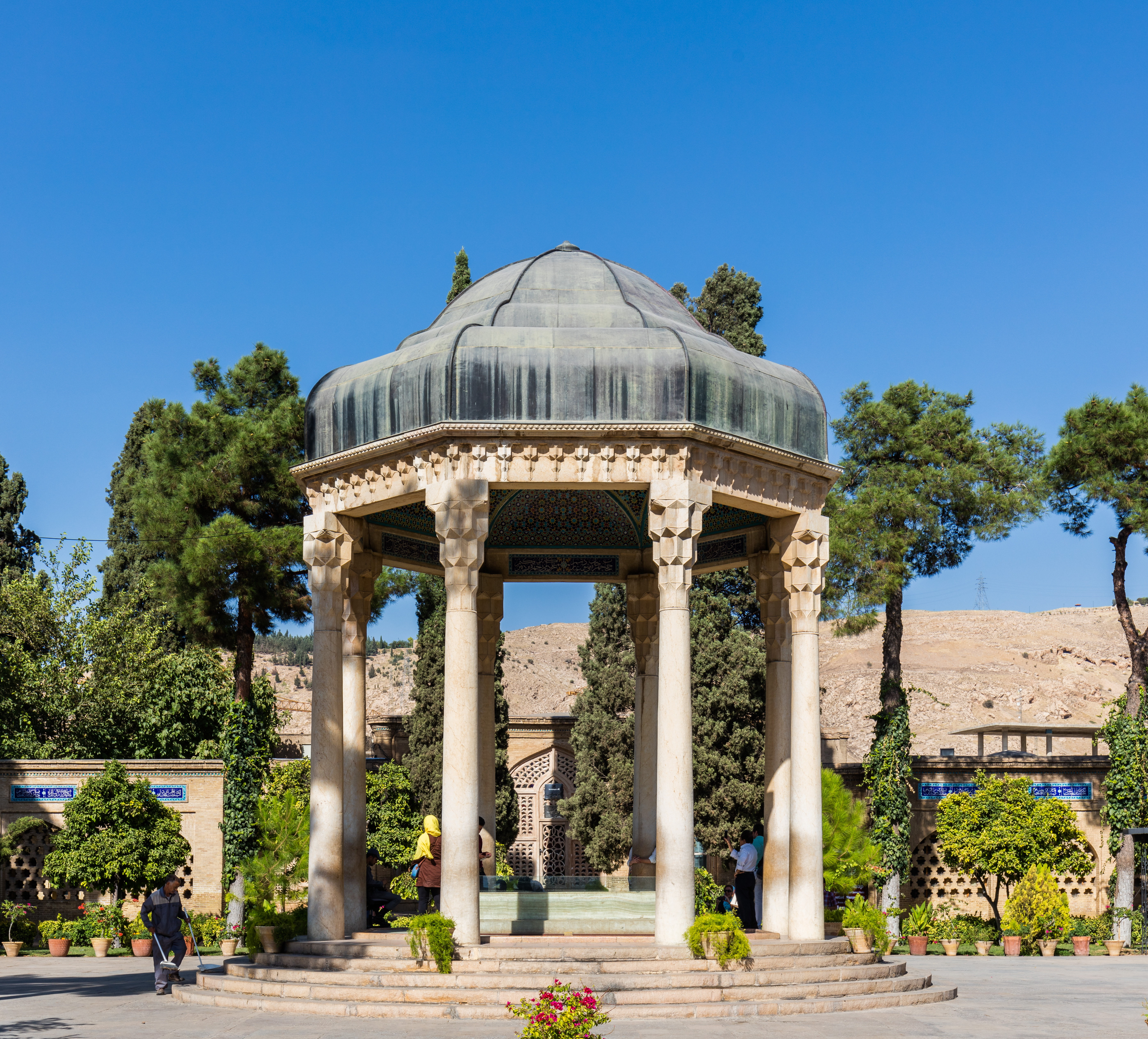 Mausoleum of Hafez, Shiraz, Iran